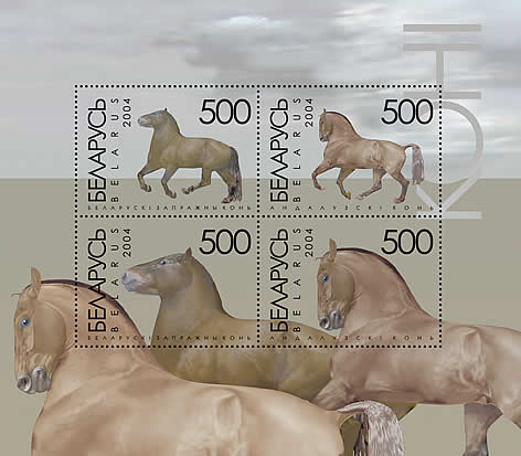 Stamp of Belarus